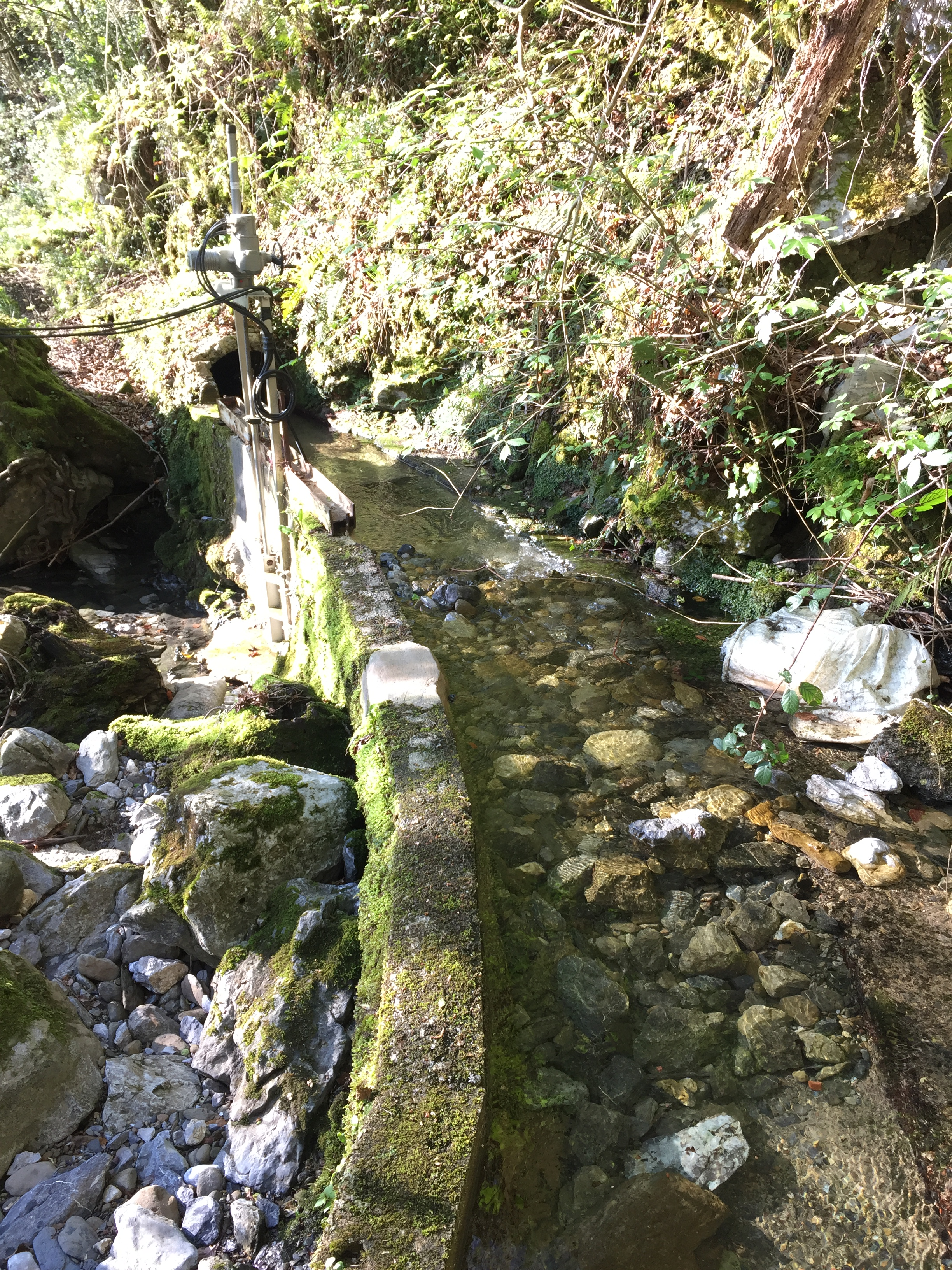 canal to Elektralkiza hydroelectric central, Ilunbe erreka source